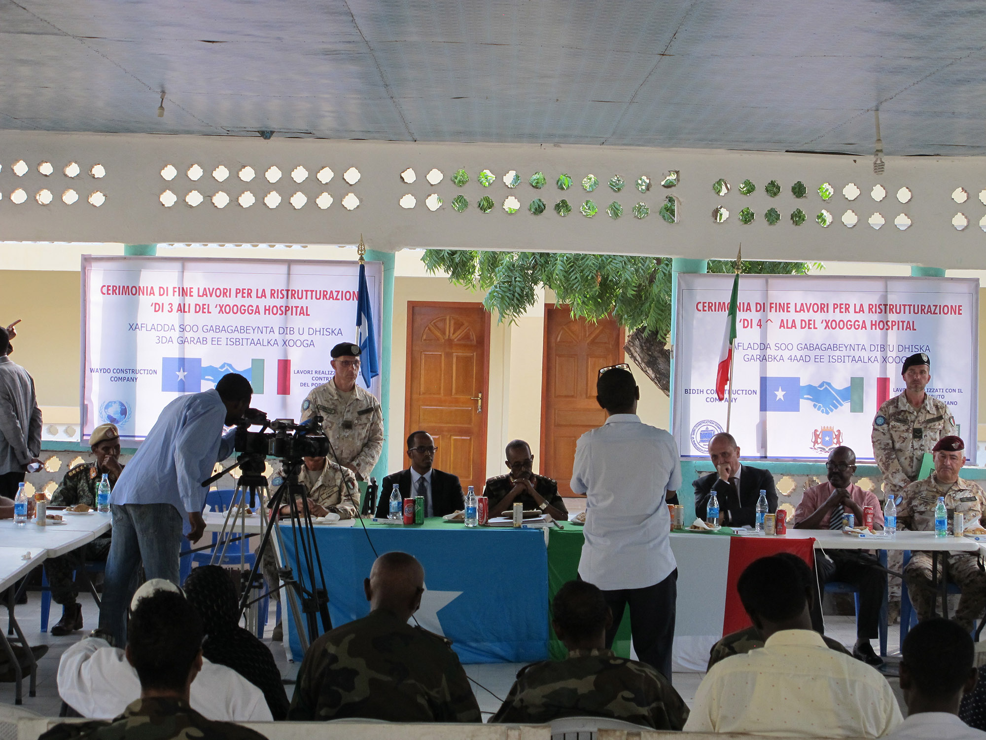 Inauguration of Xooga military hospital, Mogadishu